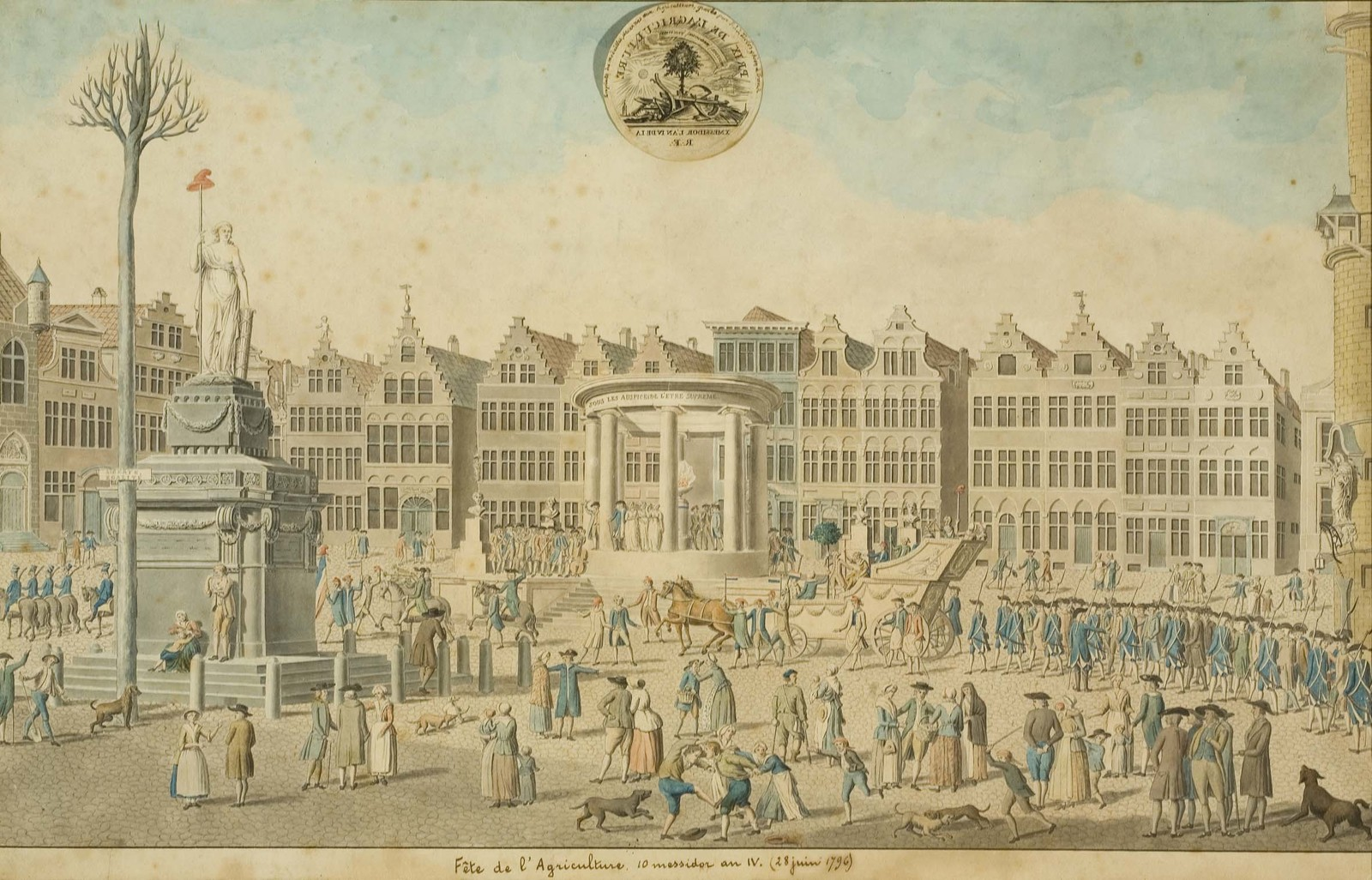 Water colour of the Fête de l'Agriculture on Place de la Liberté (currently Vrijdagmarkt) in Ghent on 10 messidor IV (28 June 1796) 55.3 x 73.2 cm (including wooden frame)